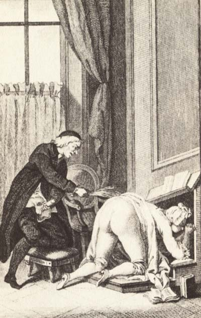 Engraving for Thérèse philosophe (libertine novel, 18th c.)